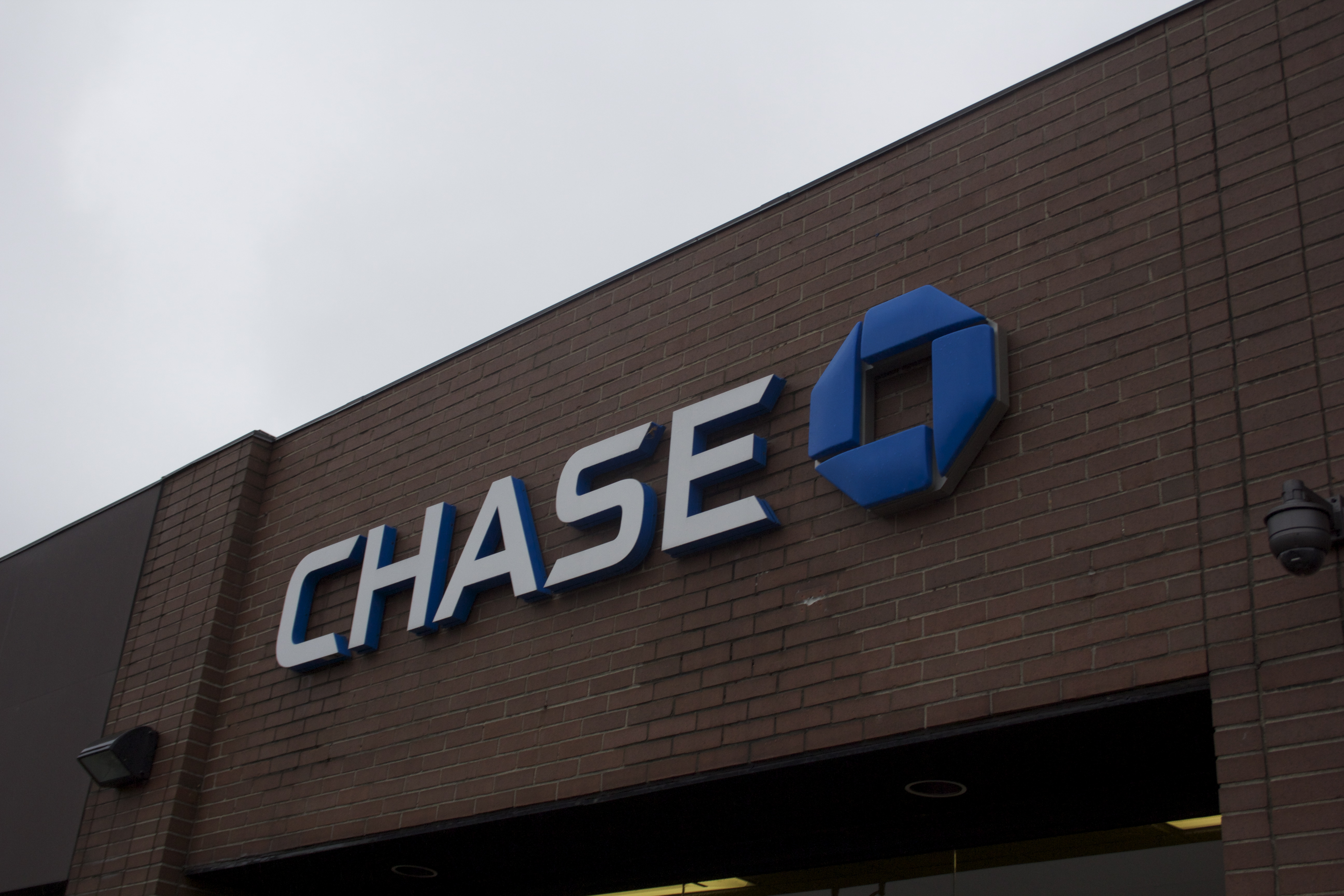 Chase (bank) in Rye (city), New York